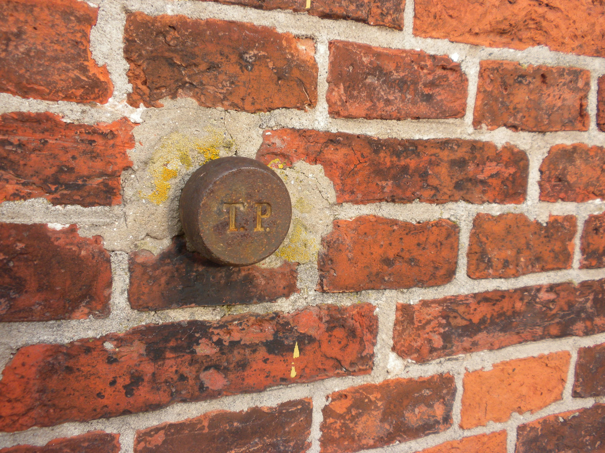 "Turmbolzen" (classical form) in the base masonry of a trigonometric point.